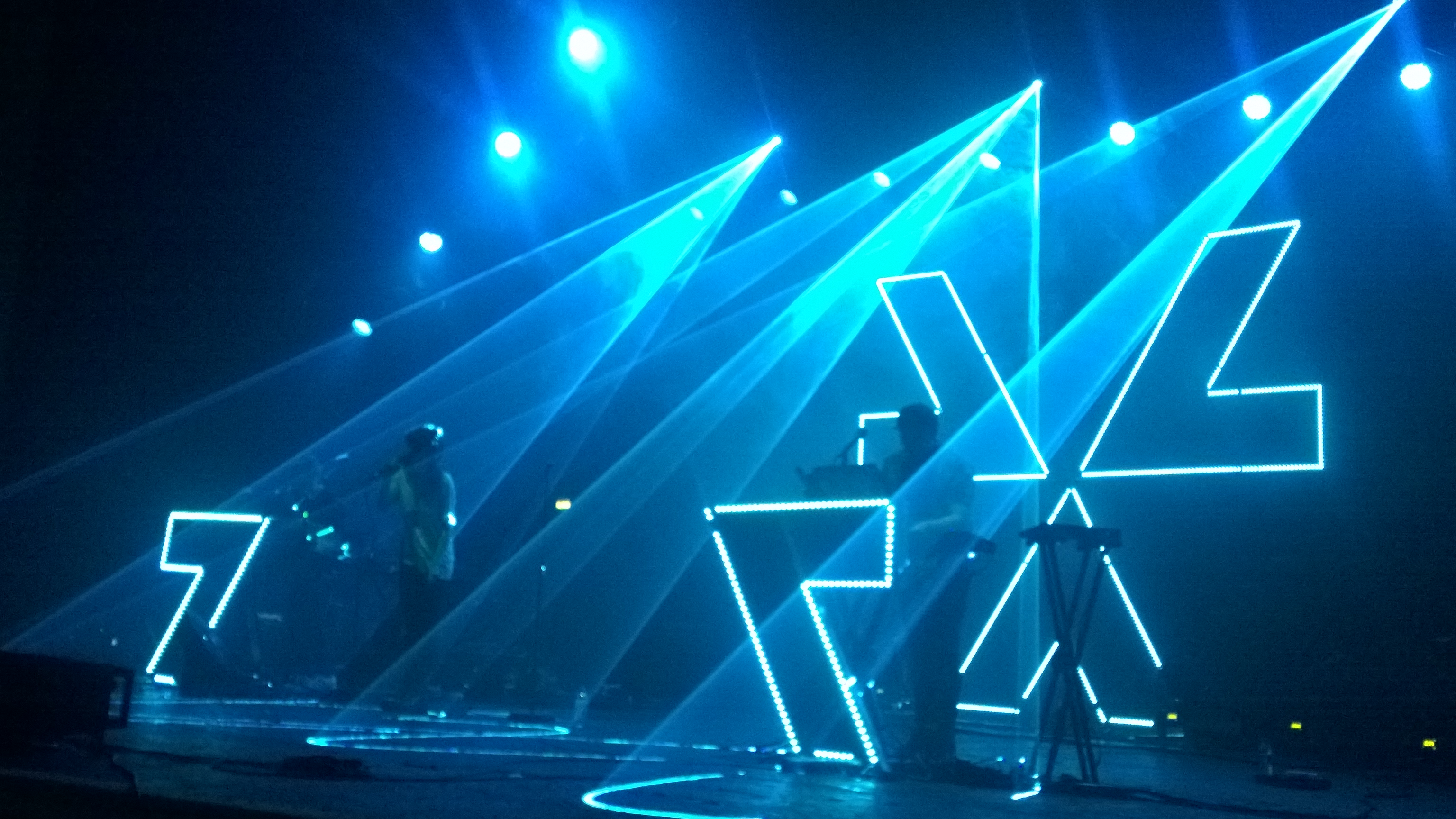 Chvrches, Brixton Academy, London